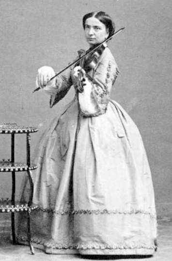 Italian violinist and composer Teresa Milanollo (1827-1904) photographed by Disdéri (1819-1889).